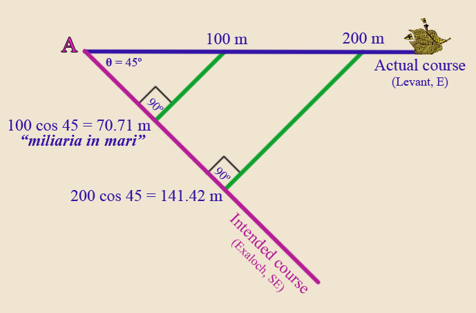 The Rule of Marteloio as described by Majorcan scholar Ramon Llull in his Arbor Scientiae (1295). From A, the ship's intended course is SE (violet), but actual course is E (blue). Calculating the miliaria di mari (advance on intended course) follows the formula: gain on intended course = distance on actual course × cosine of the angle of deviation. As angle = 45 degrees, then after 100 miles on actual course, ship gains 70.71 on intended course; after 200 miles, gains 141.42 miles, and so on.